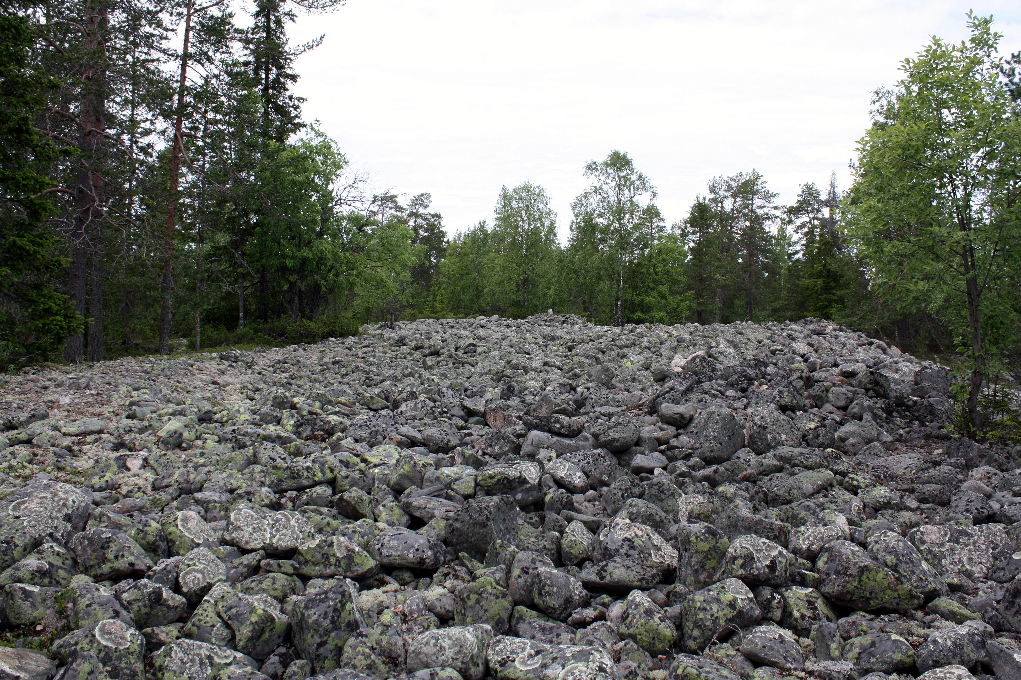 A rocky field, a so called Devil's field, in the Kirnuvaara hill in the Maksniemi village in Finland.